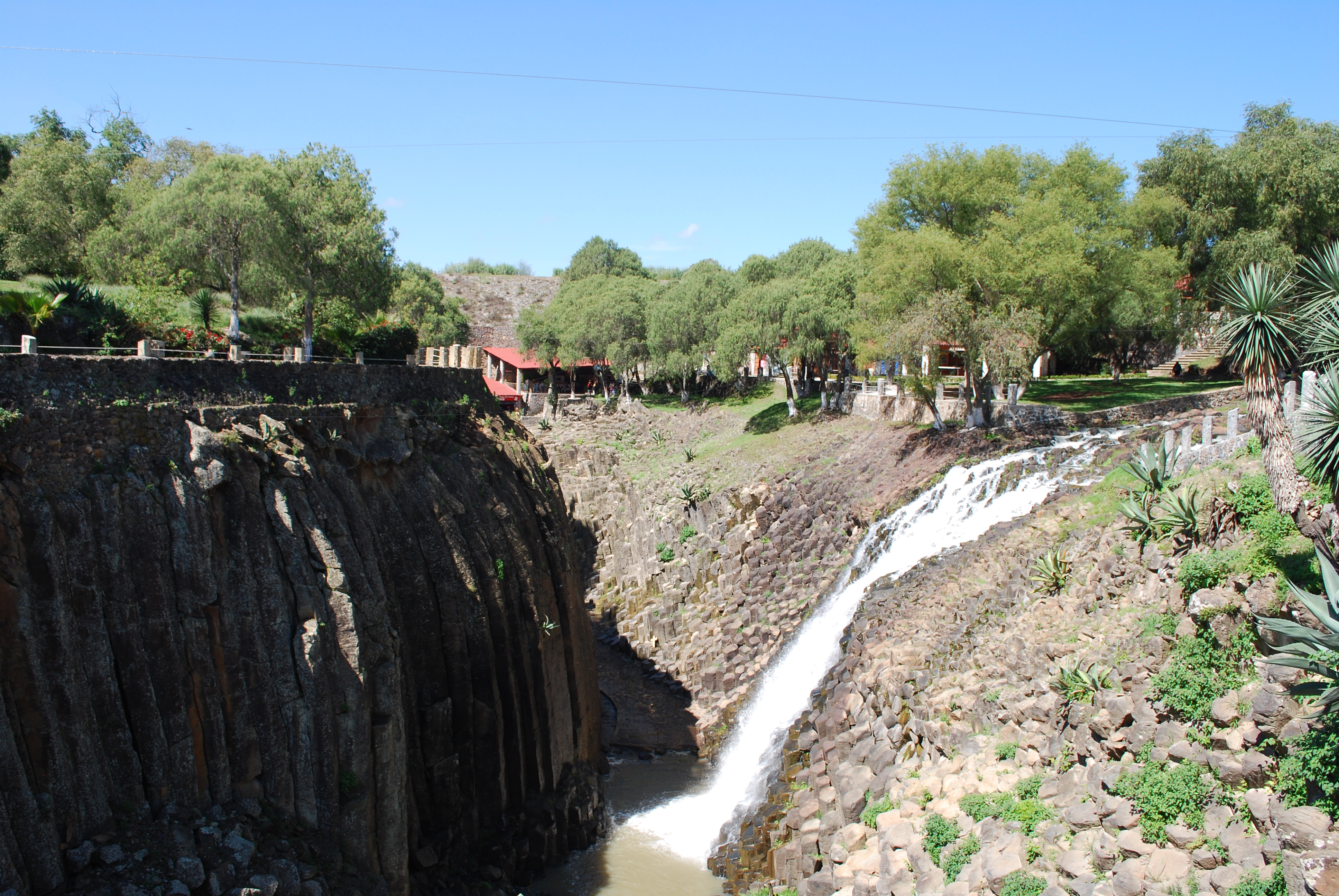 View of the waterfall of the Prismas Basalticos in Huasca de Ocampo, Hidalgo, Mexico